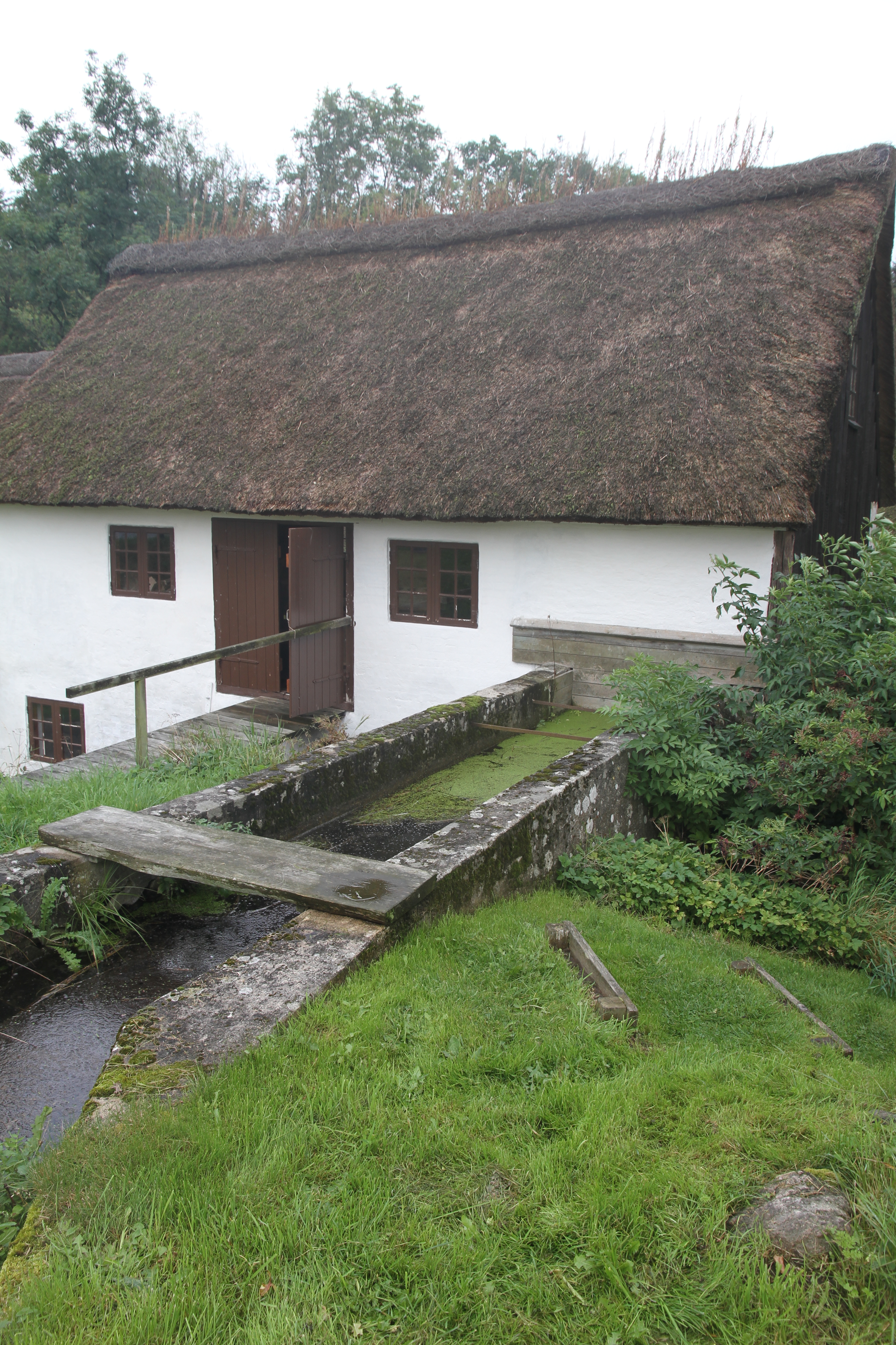 Pictures taken during the tims congress september 2011 Hjerritsdal watermill